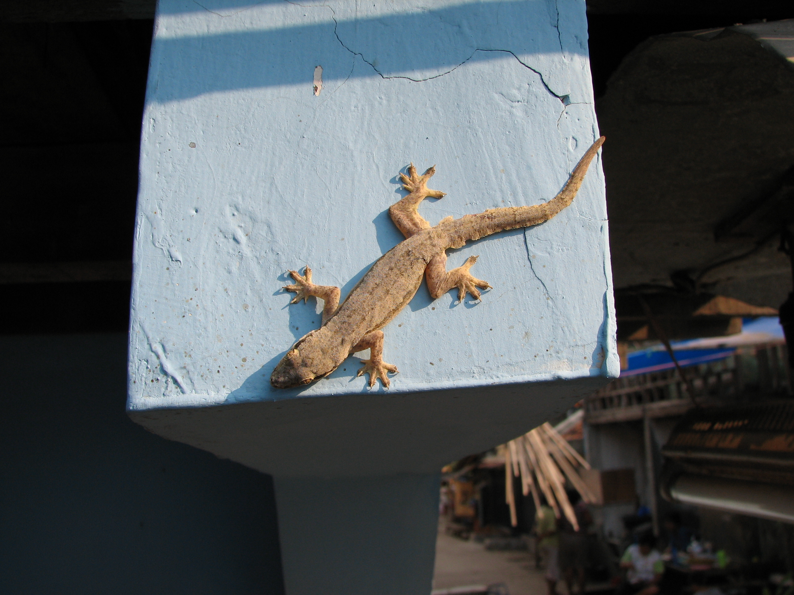 gecko (Indonesia)